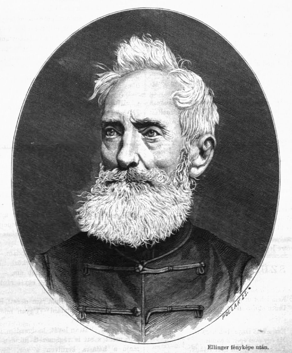 Portrait of Lajos Asbóth